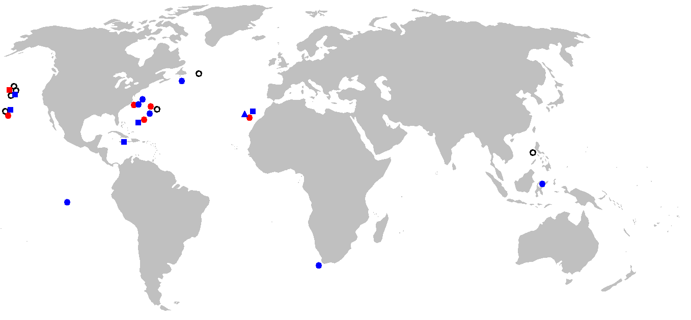 Localities of Lasiognathus specimens, based on Bertelsen & Pietsch (1996) and Pietsch (2005). LEGEND: blue squares = L. saccostoma blue circles = L. intermedius blue trianges = L. amphirhamphus red squares = L. waltoni red circles = L. beebei black open circles = L. sp.